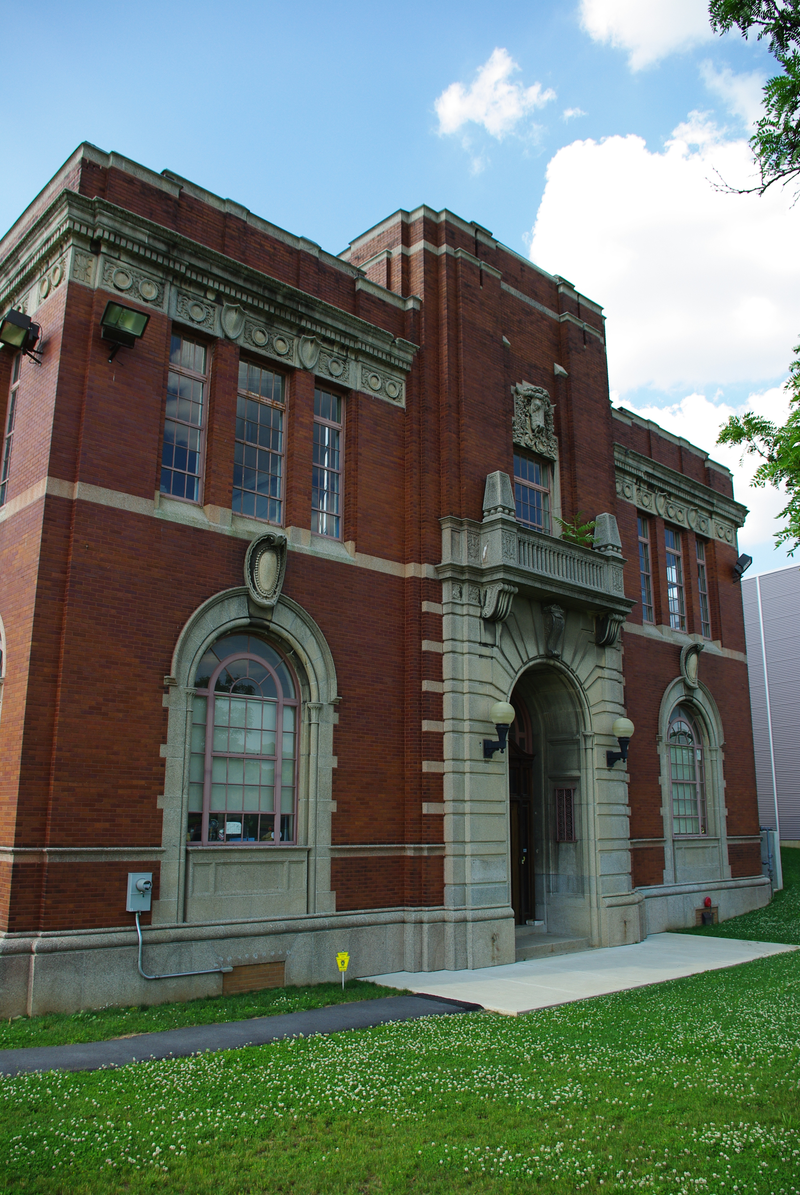 The old Arbogast & Bastian offices in Allentown, Pennsylvania; now part of the America On Wheels museum.